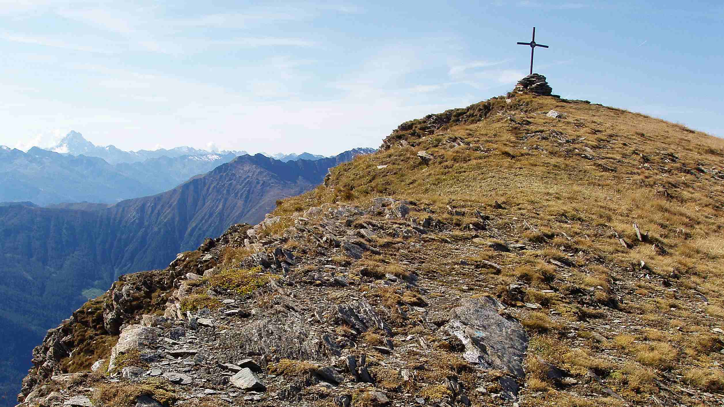 Mount Pelvo (TO, Italy): the cross on the summit; on the left in the background Mount Viso